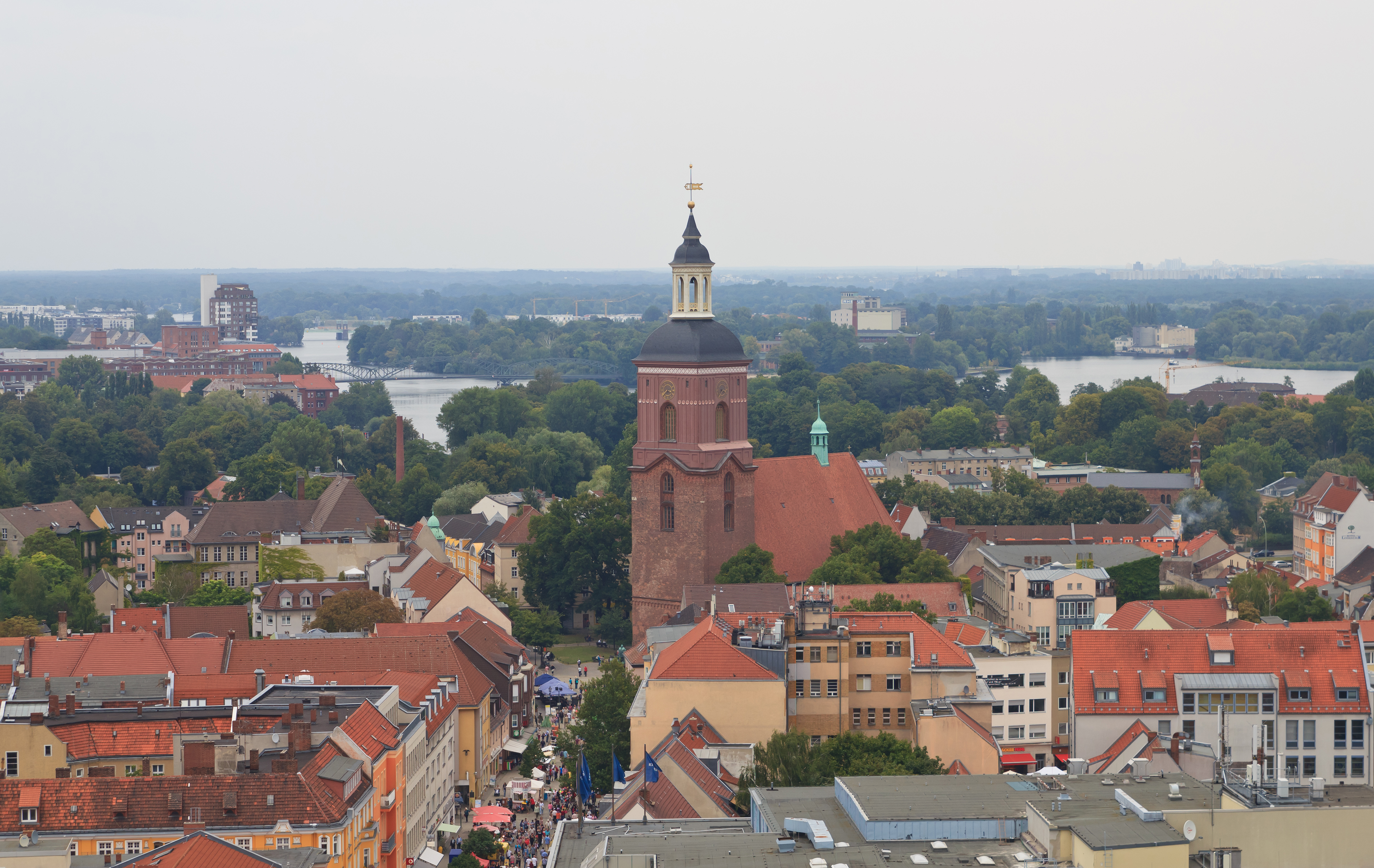 View from the tower of Spandau town hall, Berlin